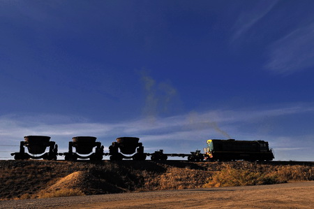 Jezkazgan